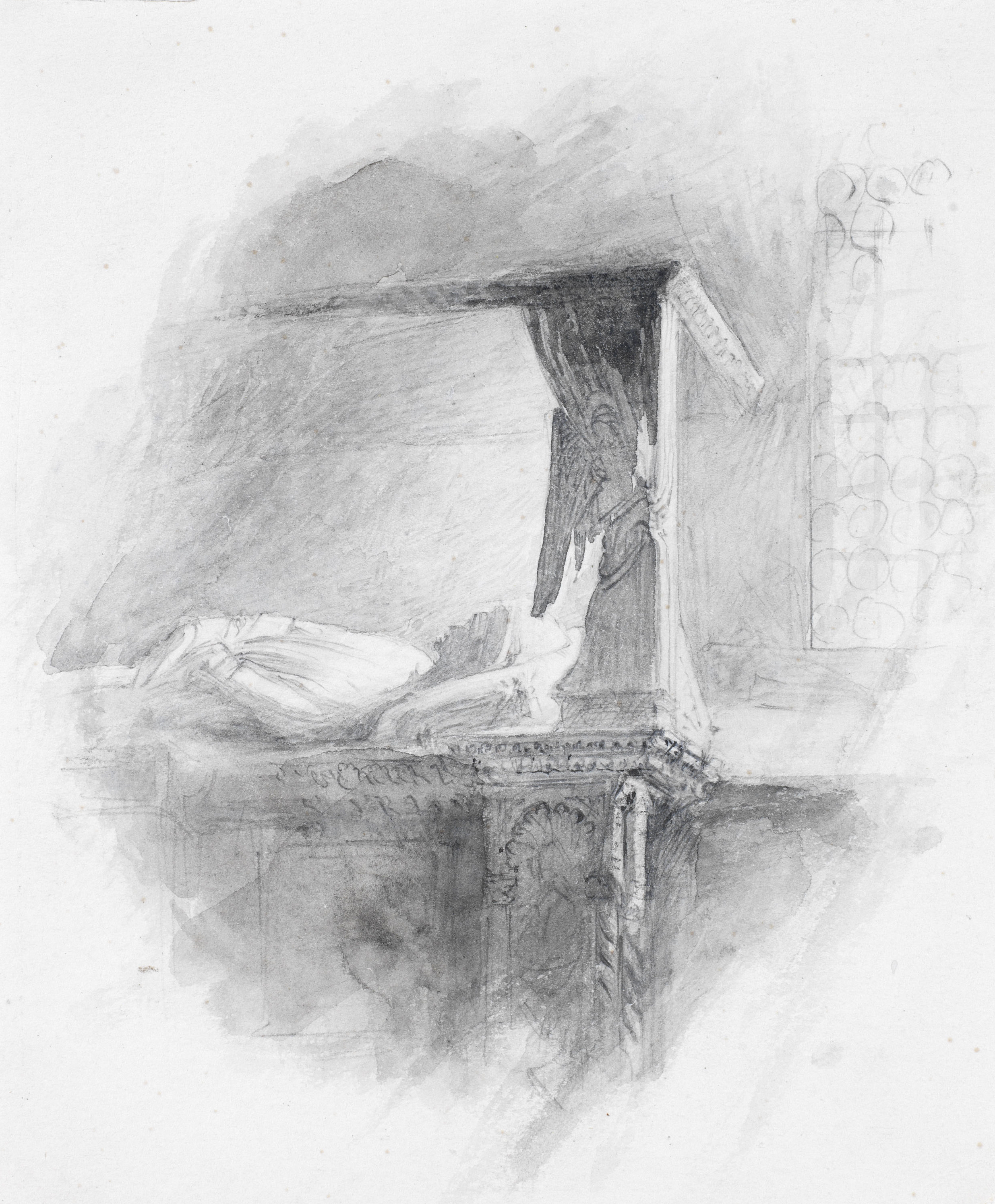 Sketch of the tomb of Andrea Dandolo; bears inscription 'Andrea Dandolo "Stones of Venice". Vol II. P.62.' on the reverse; pencil and wash; 15 x 12.5 cm